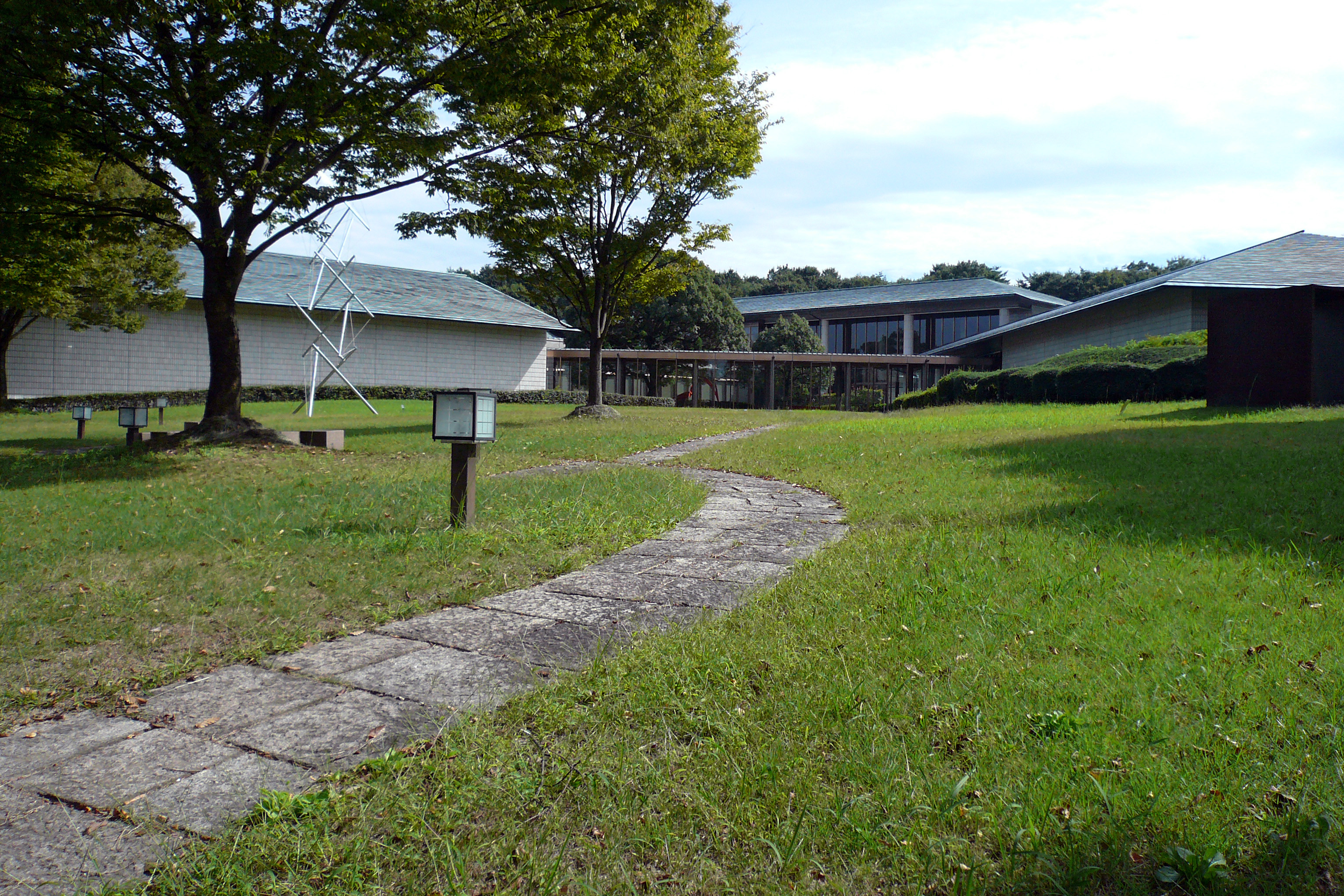 The Museum of Modern Art, Shiga in Otsu, Shiga prefecture, Japan